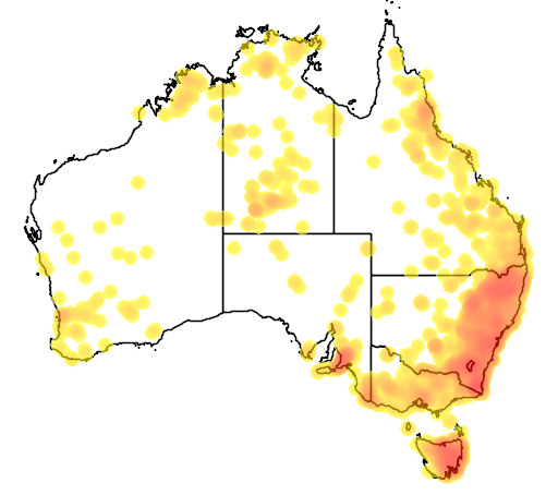 A map of where Hypericum gramineum is distributed in Australia; darker the red indicates a greater prevalence of the plant.